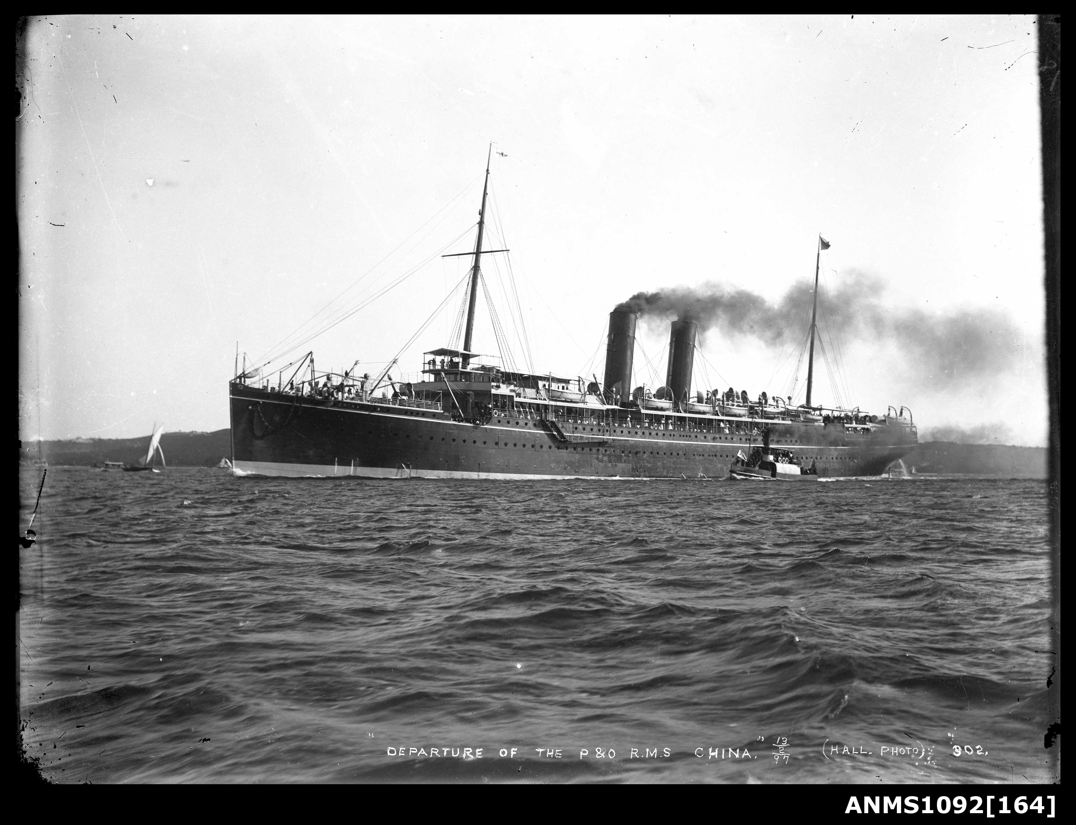 This photo is part of the Australian National Maritime Museum’s William J Hall collection. The Hall collection provides an important pictorial record of recreational boating in Sydney Harbour, from the 1890s to the 1930s – from large racing and cruising yachts, to the many and varied skiffs jostling on the harbour, to the new phenomenon of motor boating in the early twentieth century. The collection also includes images of the many spectators and crowds who followed the sailing races. The ANMM undertakes research and accepts public comments that enhance the information we hold about images in our collection. This record has been updated accordingly. Object no. ANMS1092[164]